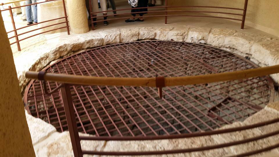 Well - Abraham's Well in Be'er Sheva renewed